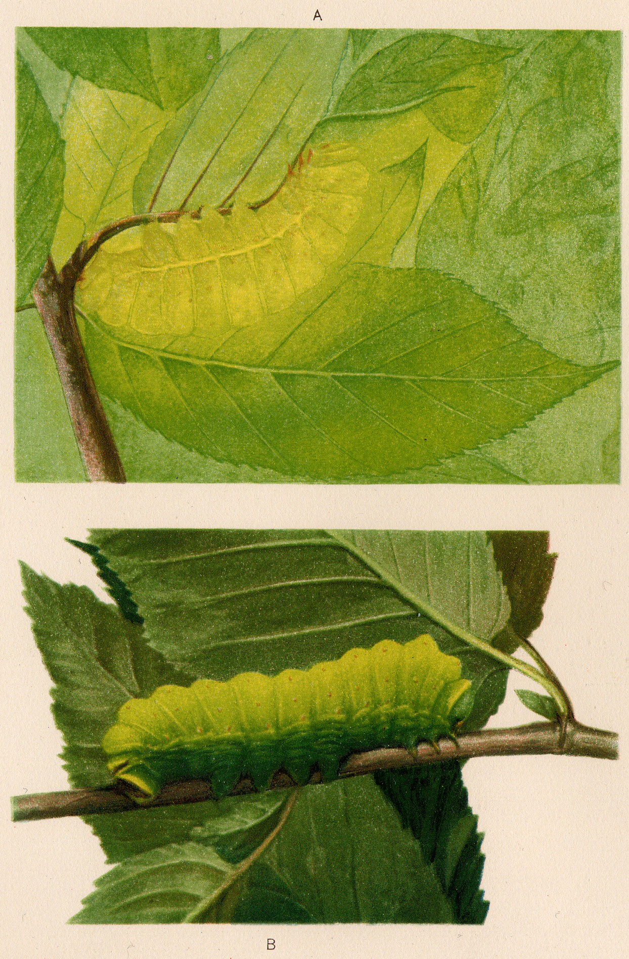 Detail of Plate XII, Luna Caterpillar (Actias luna) a) in position b) inverted, from Concealing Coloration in the Animal Kingdom, 1909, painted by Abbott Handerson Thayer.